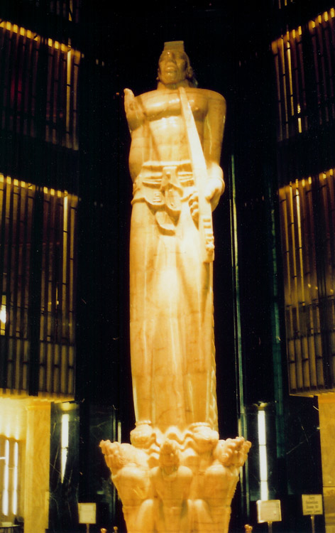 God of Peace, sculpted by Carl Milles in 1936. Stands inside the Saint Paul City Hall.